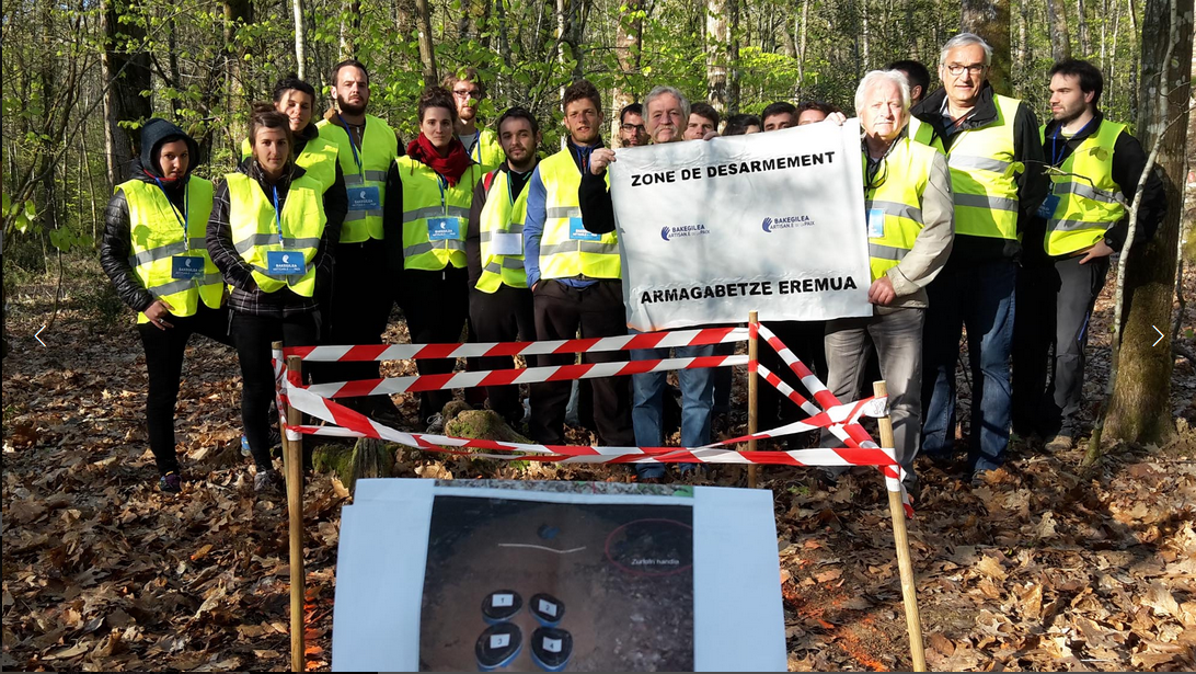 "The Artisans of Peace" worked as peace brokers in order to obtain the disarmament of the separatist group ETA. In the picture some of them waiting for the French Police to arrive to one of the weapons dumps, 172 new artisans remained next to caches as custodians and observers. (2017-04-08)